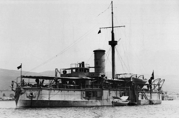 Ottoman ironclad Muin-i Zafer during the demonstration of the Ottoman Navy Salonica, 25 May - 12 June 1911